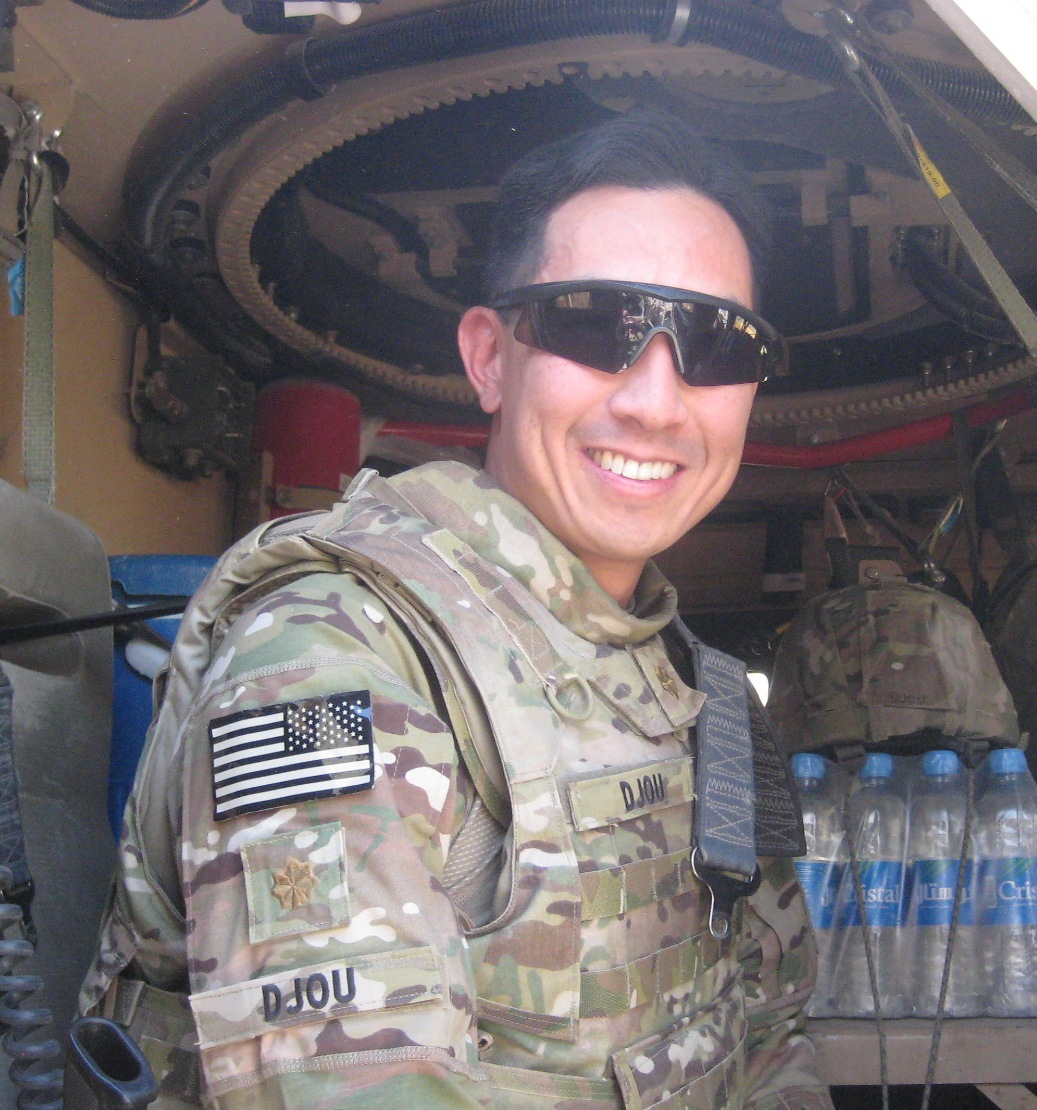 MAJ Charles K. Djou